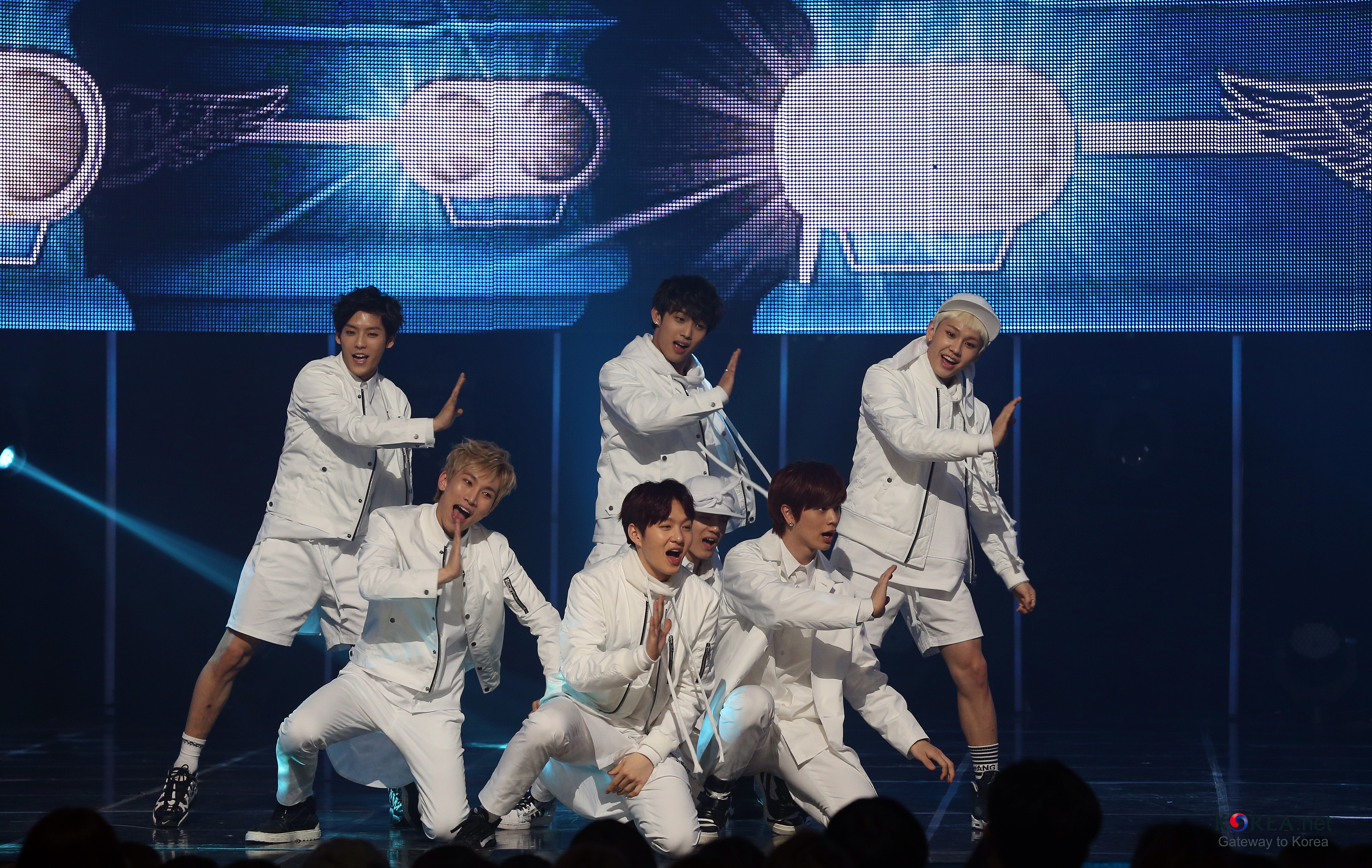 Mcountdown BTOB CJ E&M Center, Sangam-dong, Mapo-gu, Seoul 2014.03.06. Ministry of Culture, Sports and Tourism Korean Culture and Information Service ( Jeon Han 엠카운트다운 생방송 비투비 ‘뛰뛰빵빵’ 서은광, 이민혁, 이창섭, 임현식, 프니엘, 정일훈, 육성재 2014-03-06 CJ E&M 센터 문화체육관광부 해외문화홍보원 코리아넷 전한